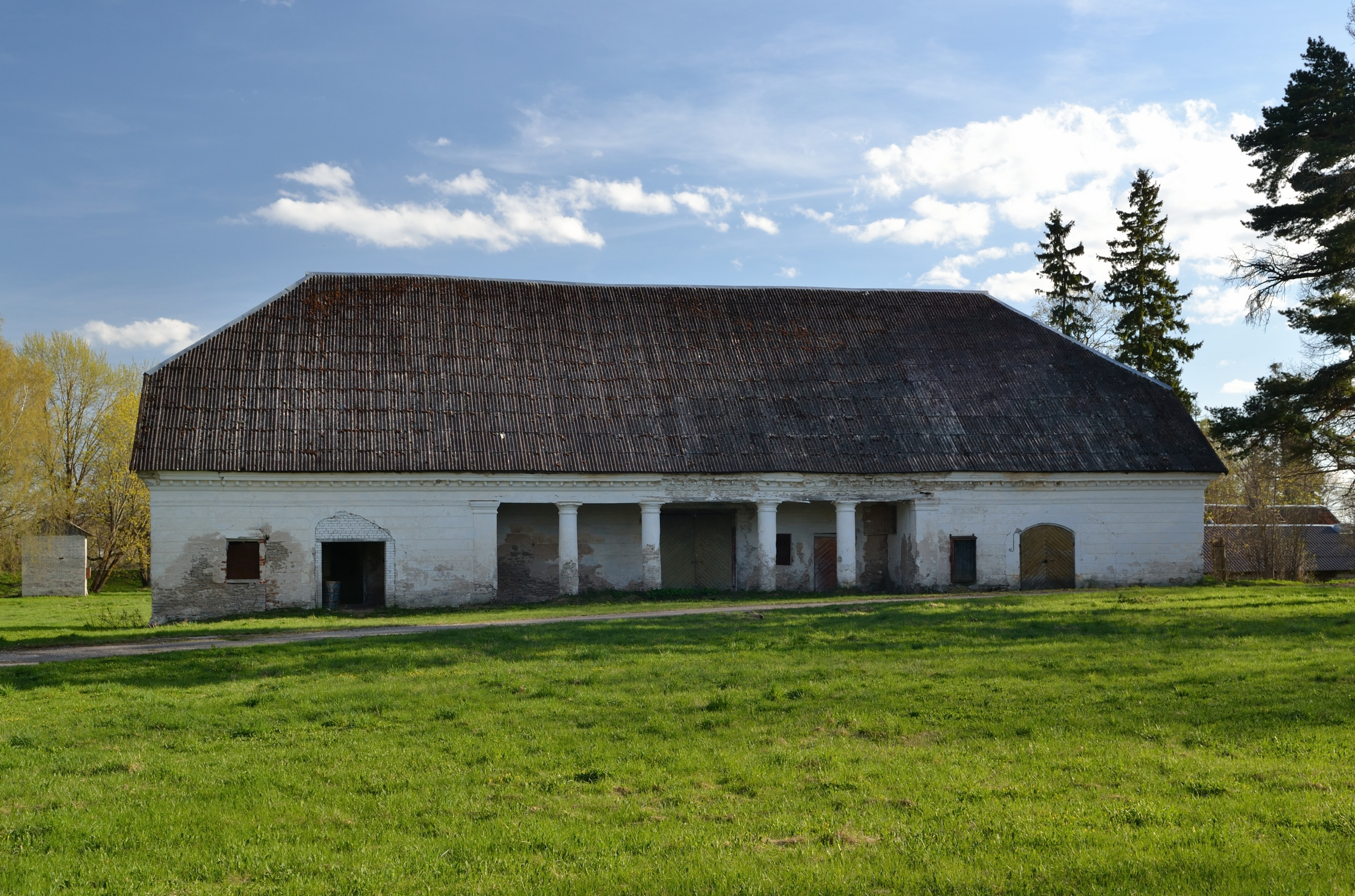 Käravete manor stable-coach house